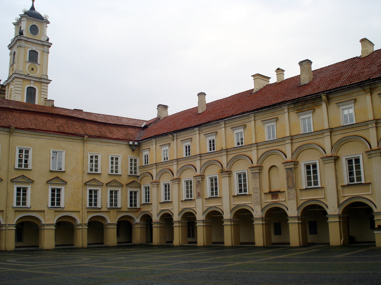 Vilnius University. Great Courtyard